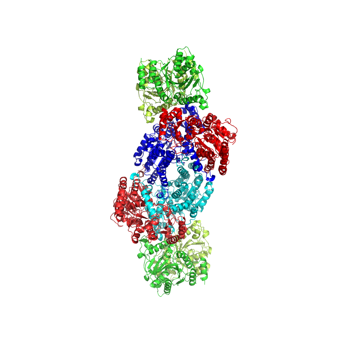 Structure of nitrogenase created with PyMol